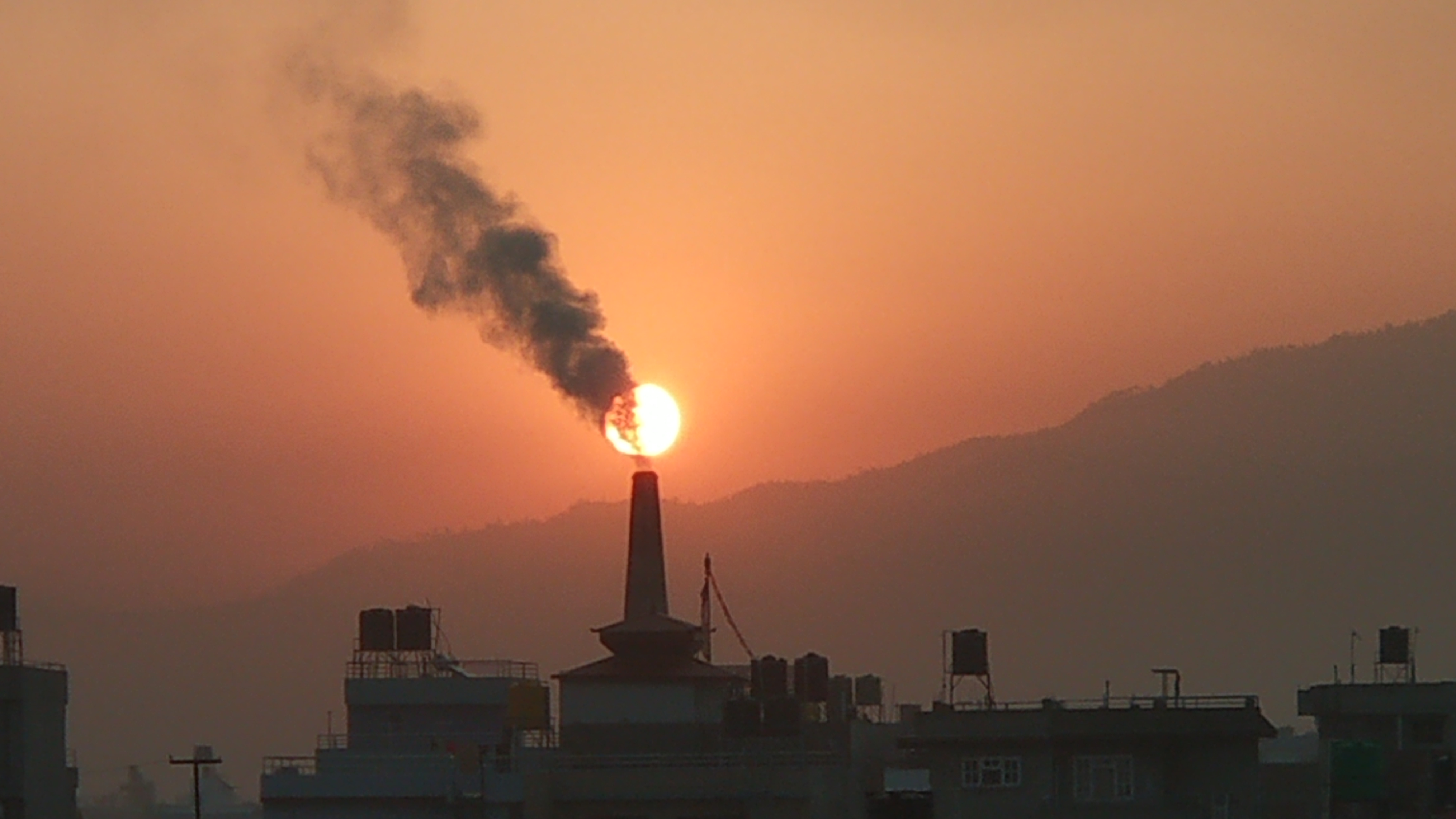 Air pollution by brick factories at Mahalaxmi municipality, Lalitpur Nepal.